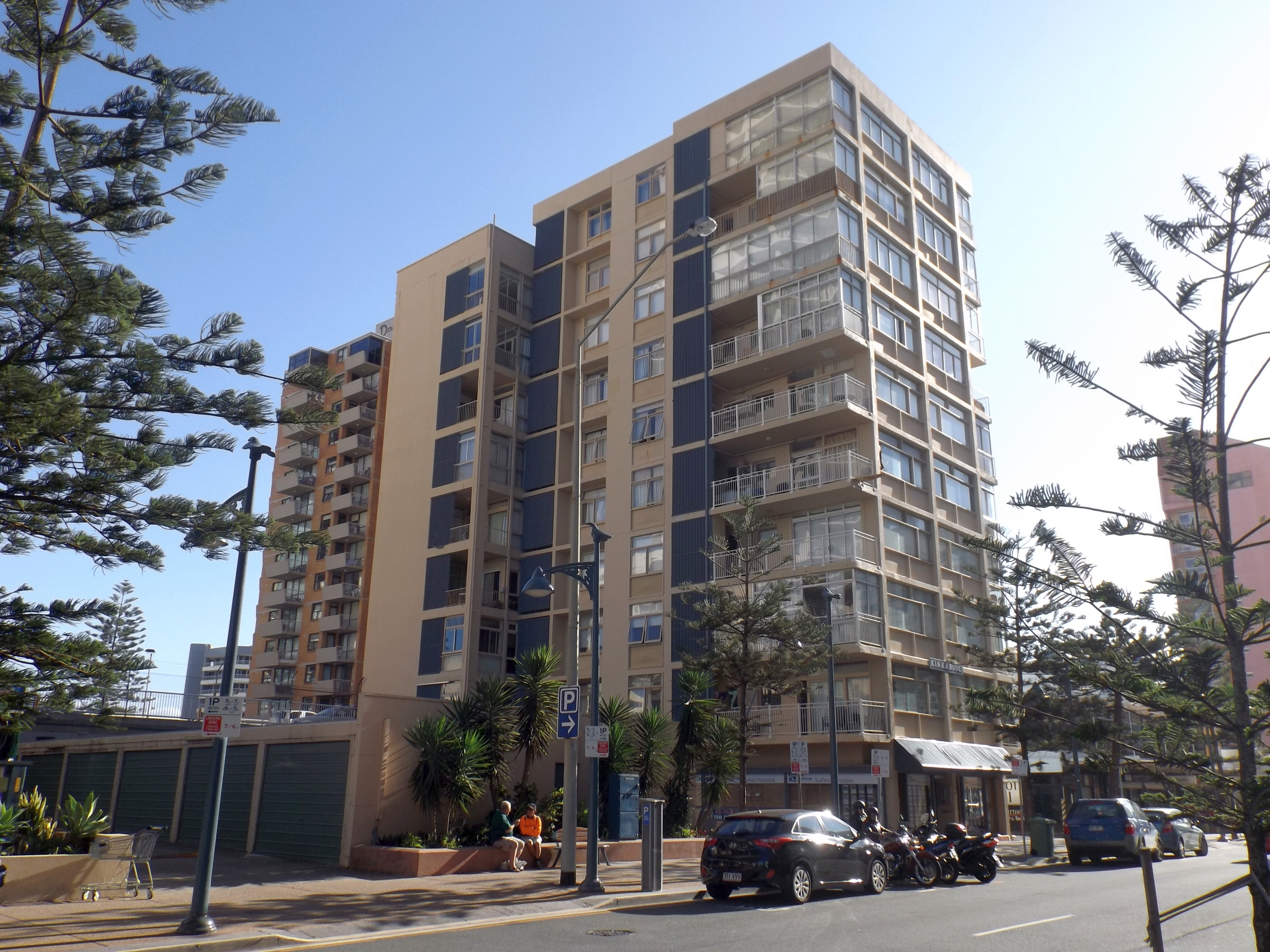 Photo of Kinkabool apartment building at Surfers Paradise, Gold Coast City, Queensland, Australia.